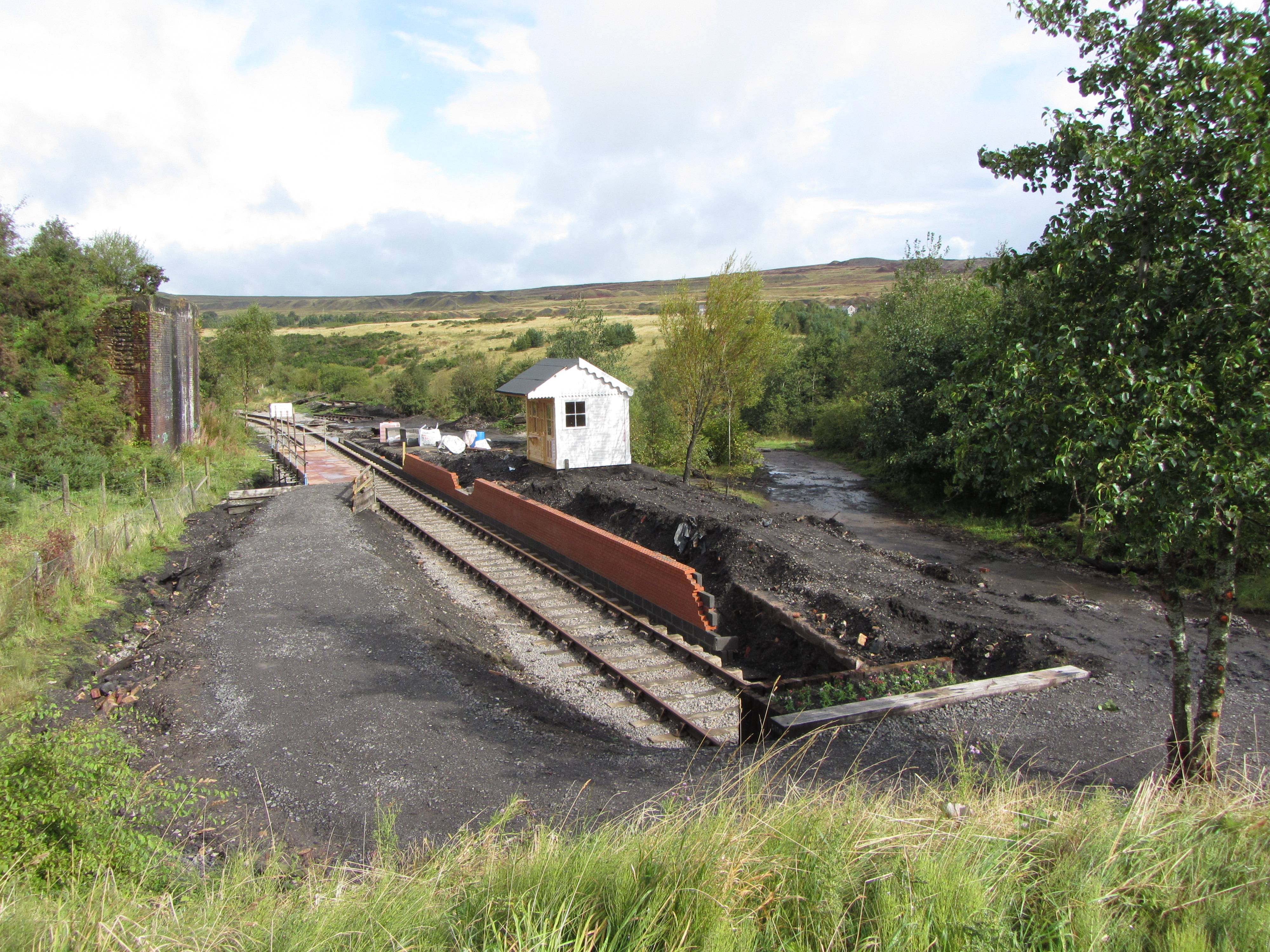 Big Pit Halt train station on the Pontypool & Blaenavon Railway, Wales